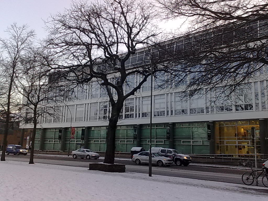 Grand Parade Campus University of Brighton Faculty of Arts January 2010